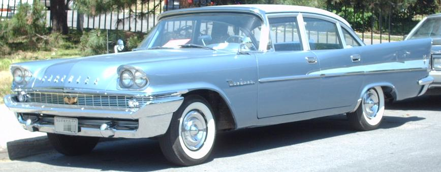 1958 Chrysler Windsor LC2-M (not the LC1-L sold in the United States) photographed in Montreal, Quebec, Canada. This is the Canadian Windsor built on the longer 126 in wheel base which it shared with the senior New Yorker and Saratoga (also Model Number LC2-M), which differed from the Windsor sold in the US which was built on a 122 in wheelbase and featured a completely different front clip and grill that were similar to the DeSoto Firesweep.